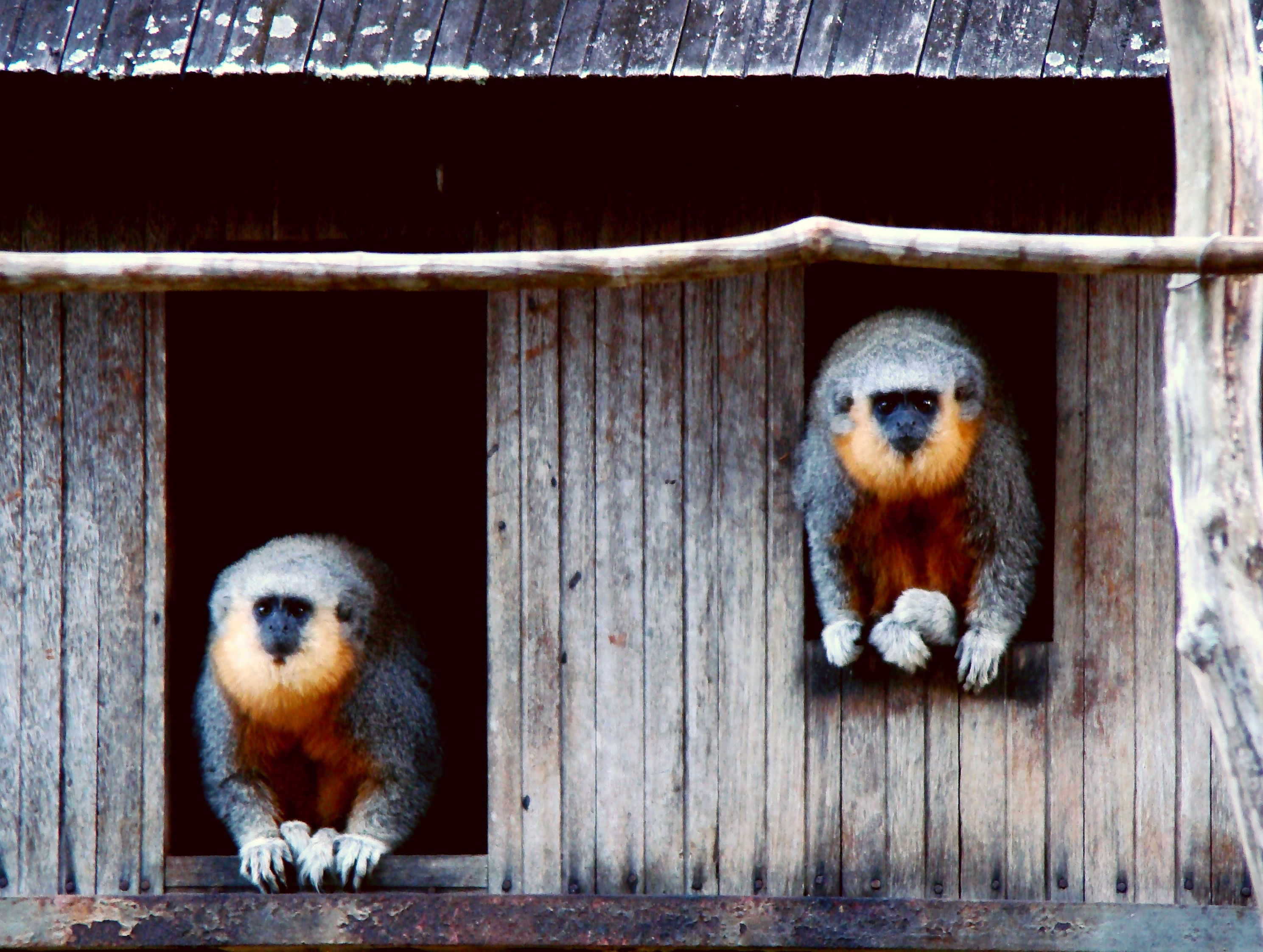 Red-bellied Titi Callicebus moloch (sensu stricto) The taxonomy of this group is ever-changing.